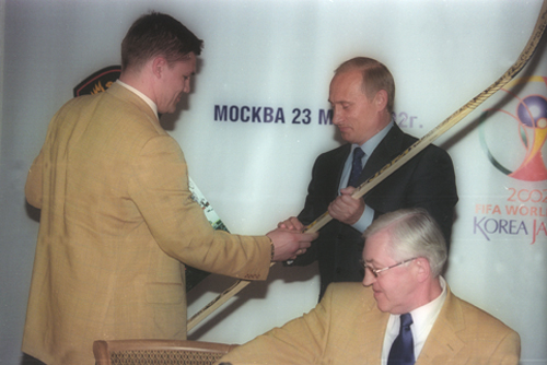 MOSCOW. President Putin meeting with the players of the Russian football and ice hockey teams. Andrei Kovalenko, forward of the Russian ice hockey team, presenting President Putin with a hockey stick with autographs of the team's players.